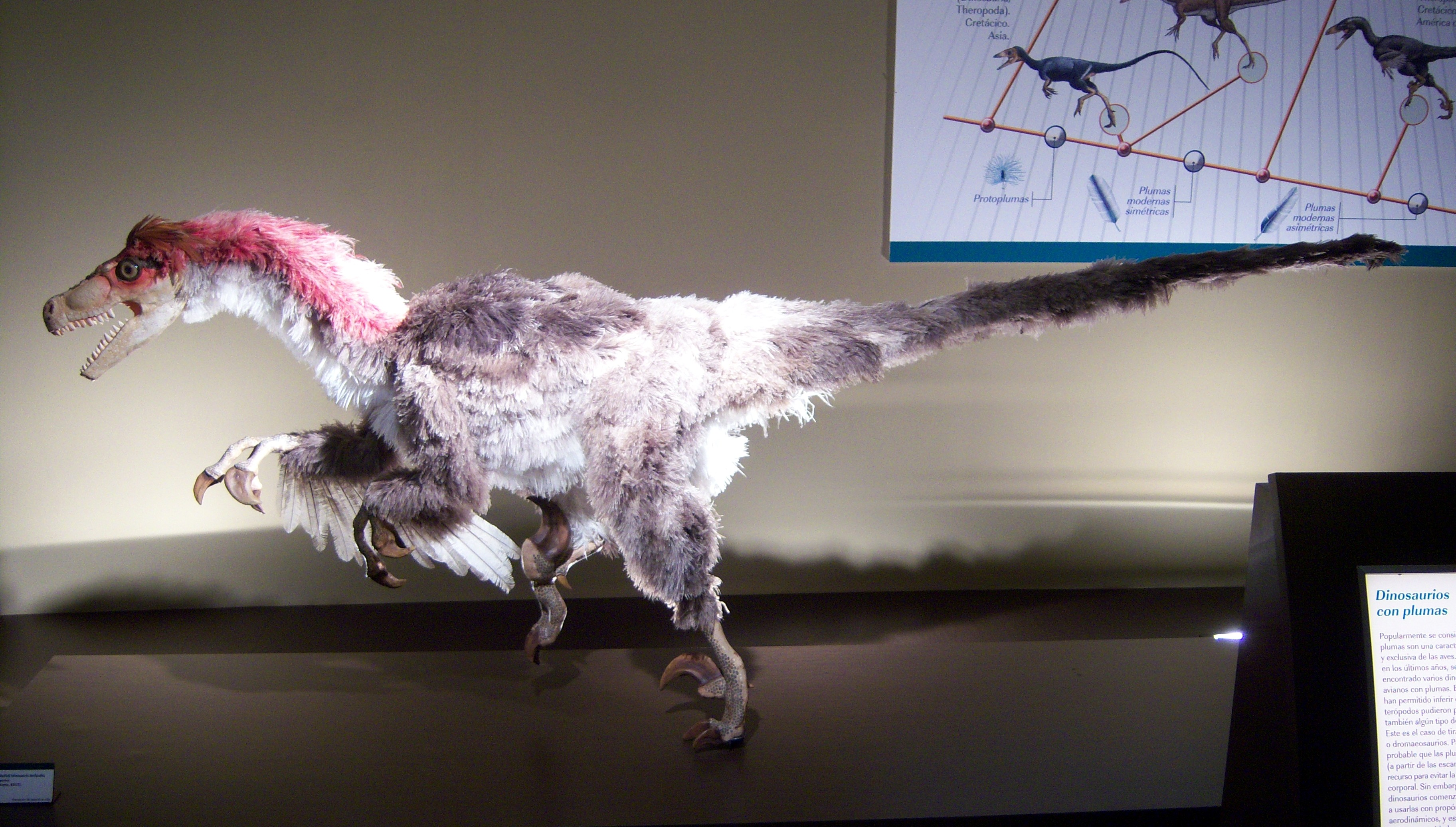 Recreation of a Dromaeosaurus in the Museo del Jurásico de Asturias (Spain)